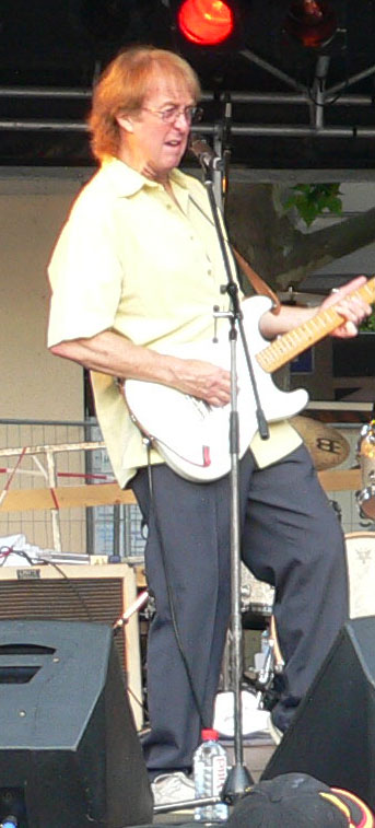 Spencer Davis on concert in Germany, 2006